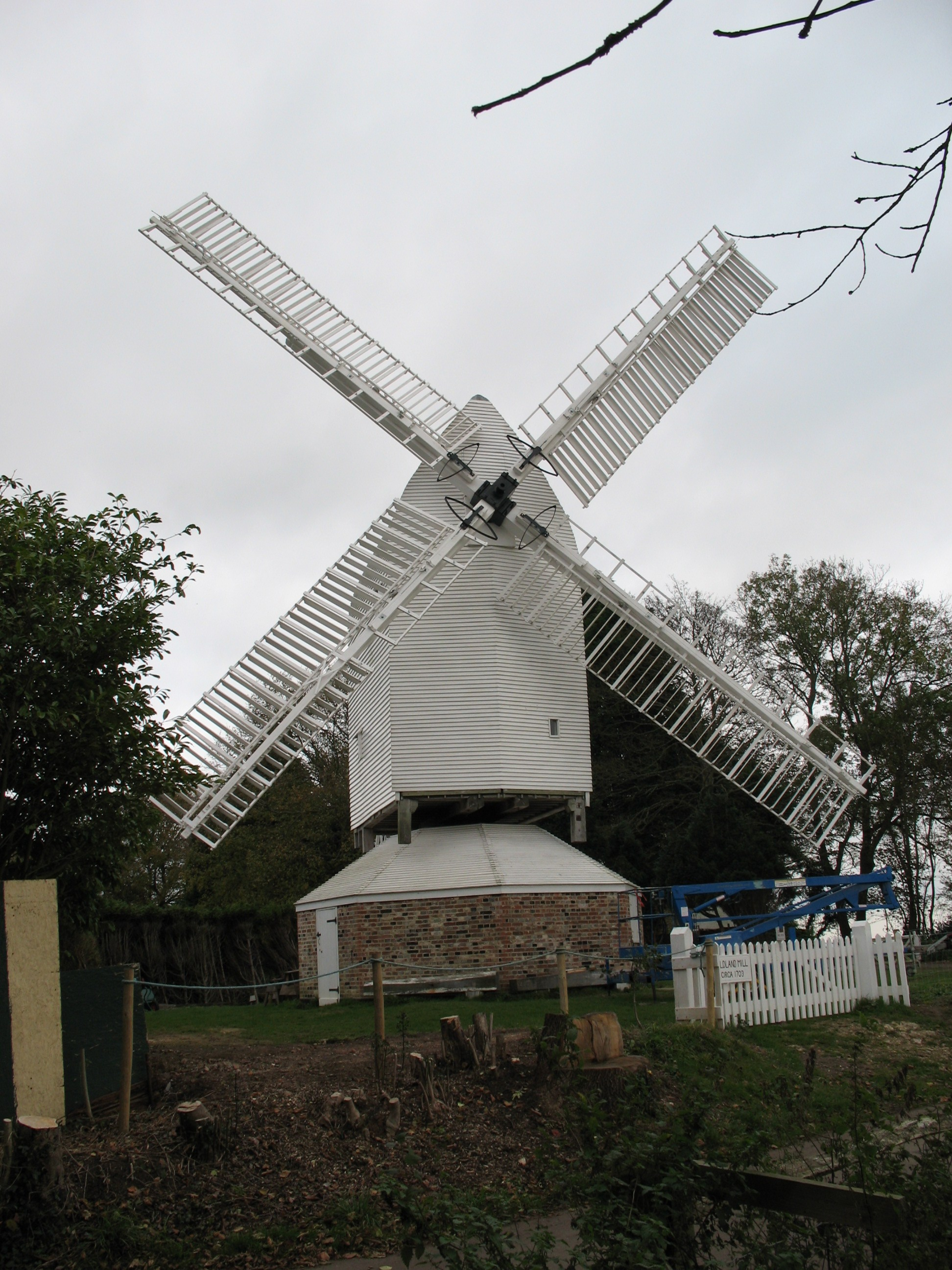 Oldland Mill, Hassocks, West Sussex. Paste 14:59, 10 November 2007 (UTC)